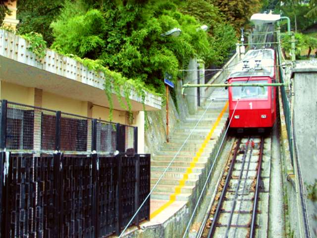 The funicular arriving to San Simone station from Righi terminus